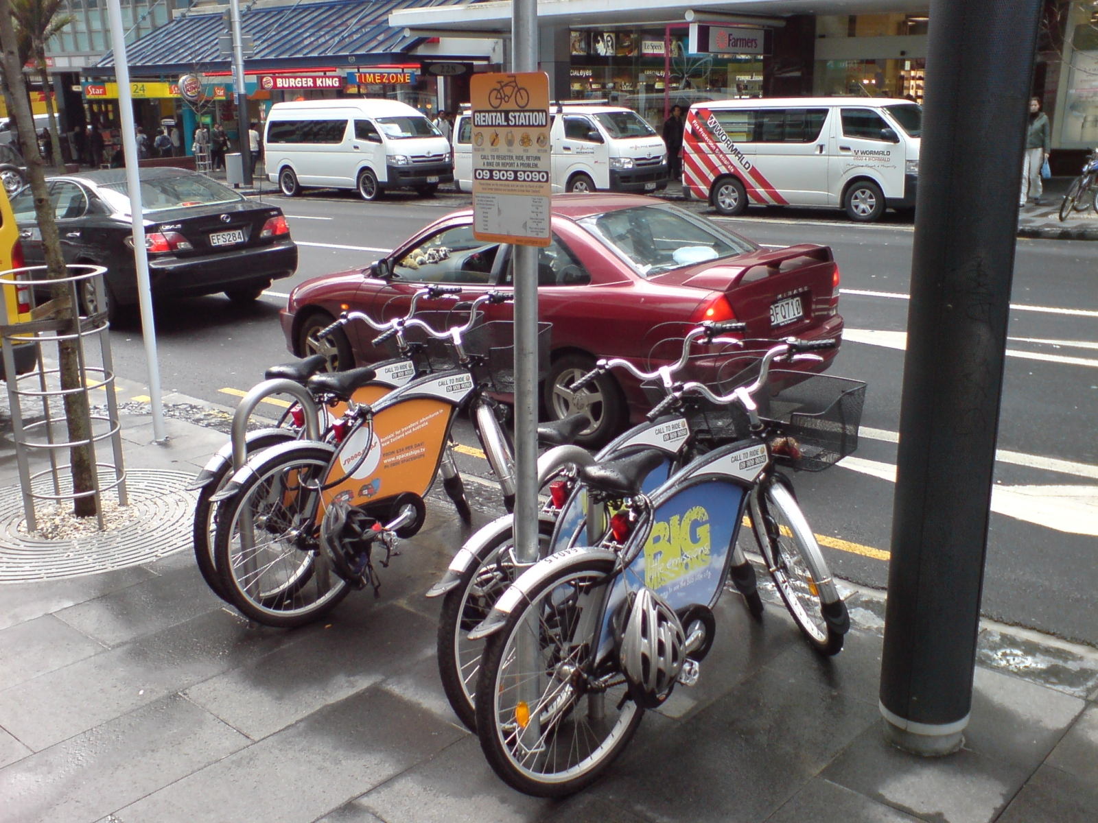 Nextbike rental cycles on Queen Street in the Auckland CBD, New Zealand.